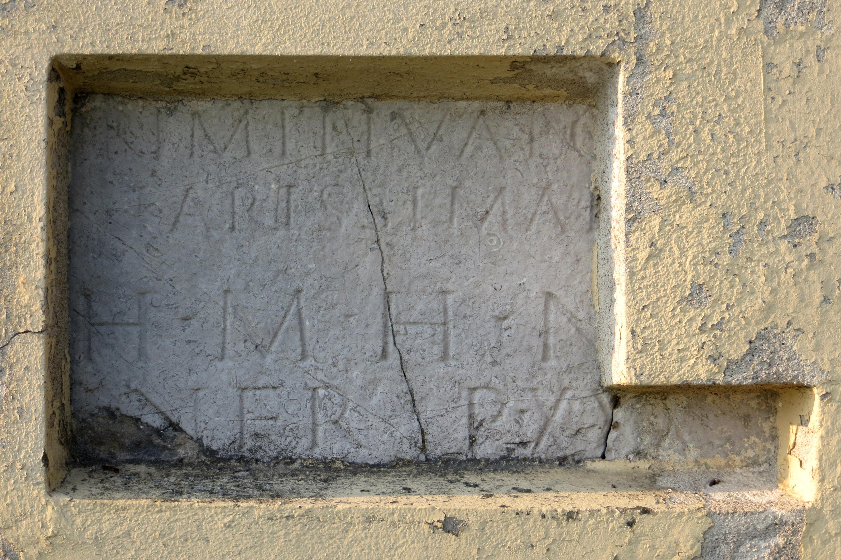 Roman gravestone in the wall of the church in Zgornji Kašelj, Ljubljana, Slovenia